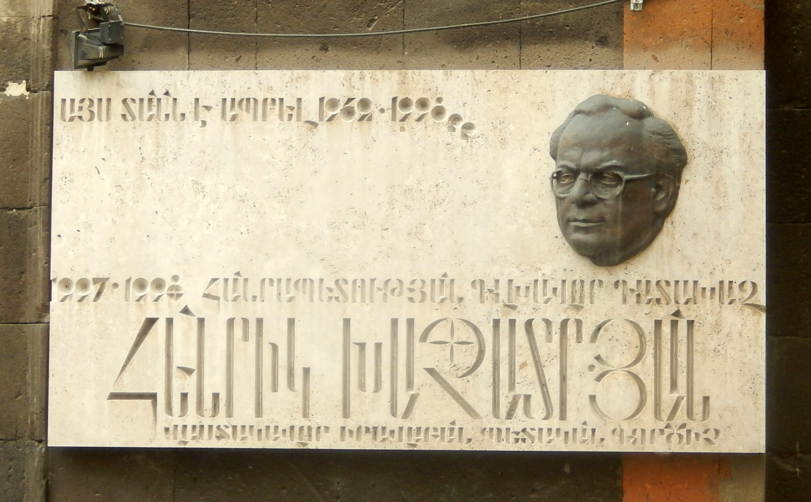 Plaque to Henrik Khachatryan